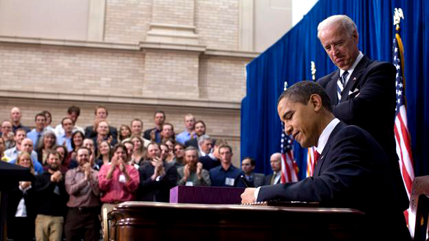 United States President Barack Obama signs into law the American Recovery and Reinvestment Act of 2009 as Vice President Joe Biden looks on.